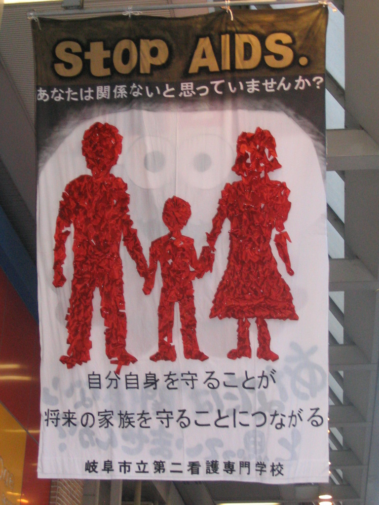 I took this picture while walking down Nagarabashi-dori in Gifu, Gifu, on December 1, 2005. It is a picture of one of the flags that was hung up in celebration of Flag Art.